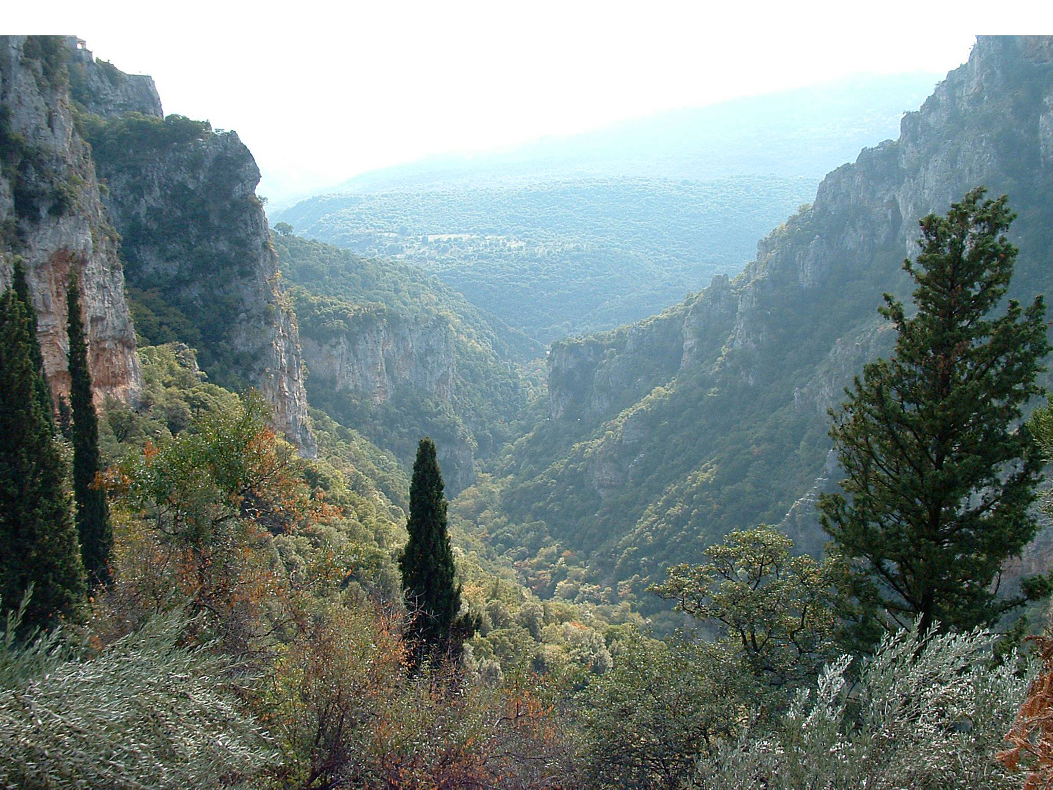 03/11/2005. Dark trees are Cupressus sempervirens, wild-type (right) and cultivar 'Stricta' (centre & left).